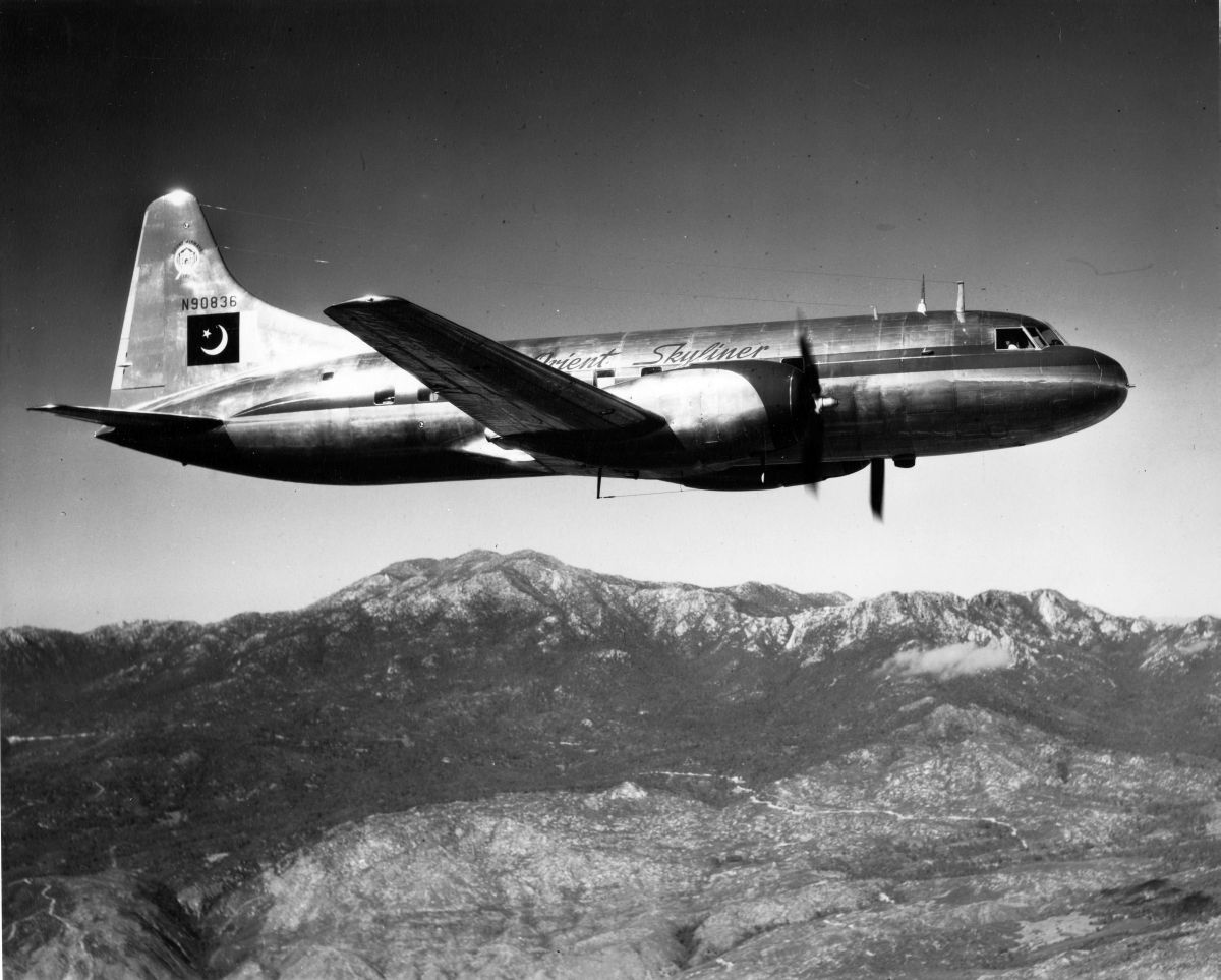 Orient Airways became Pakistan International Airlines.